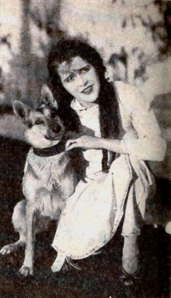 Still from the American film serial The Adventures of Ruth (1919) with Ruth Roland and her police dog, on page 50 of the August 30, 1919 Exhibitors Herald.